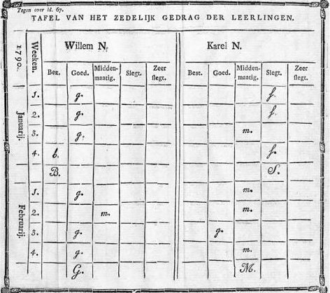 Merit Table for school children